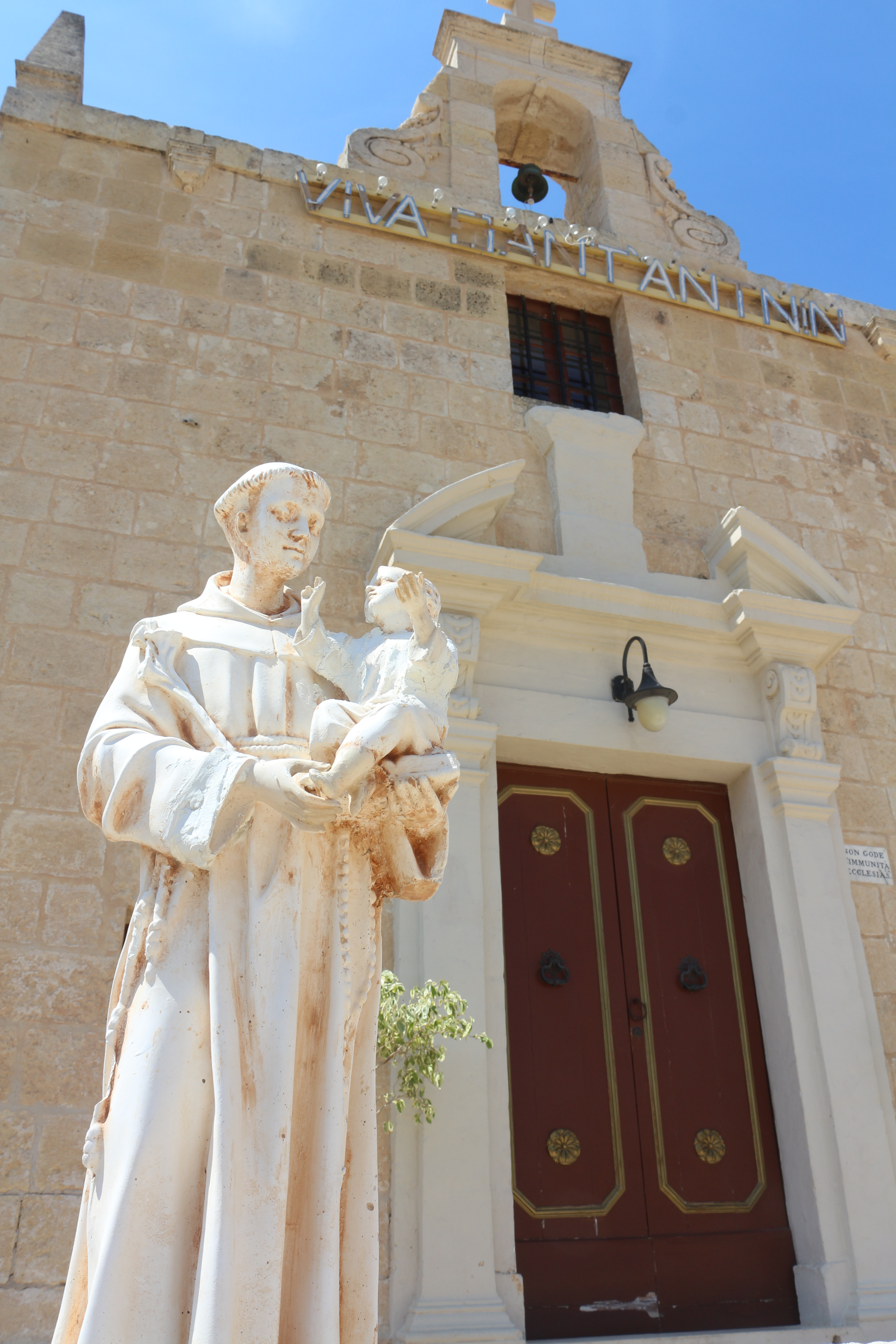 Chapel of St Anthony of Padua This media is about Maltese cultural property with inventory number 01737.